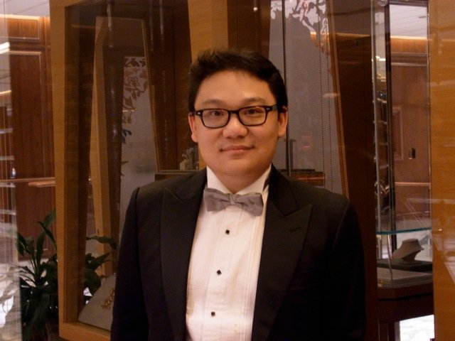 People Power Chairman Christopher Lau